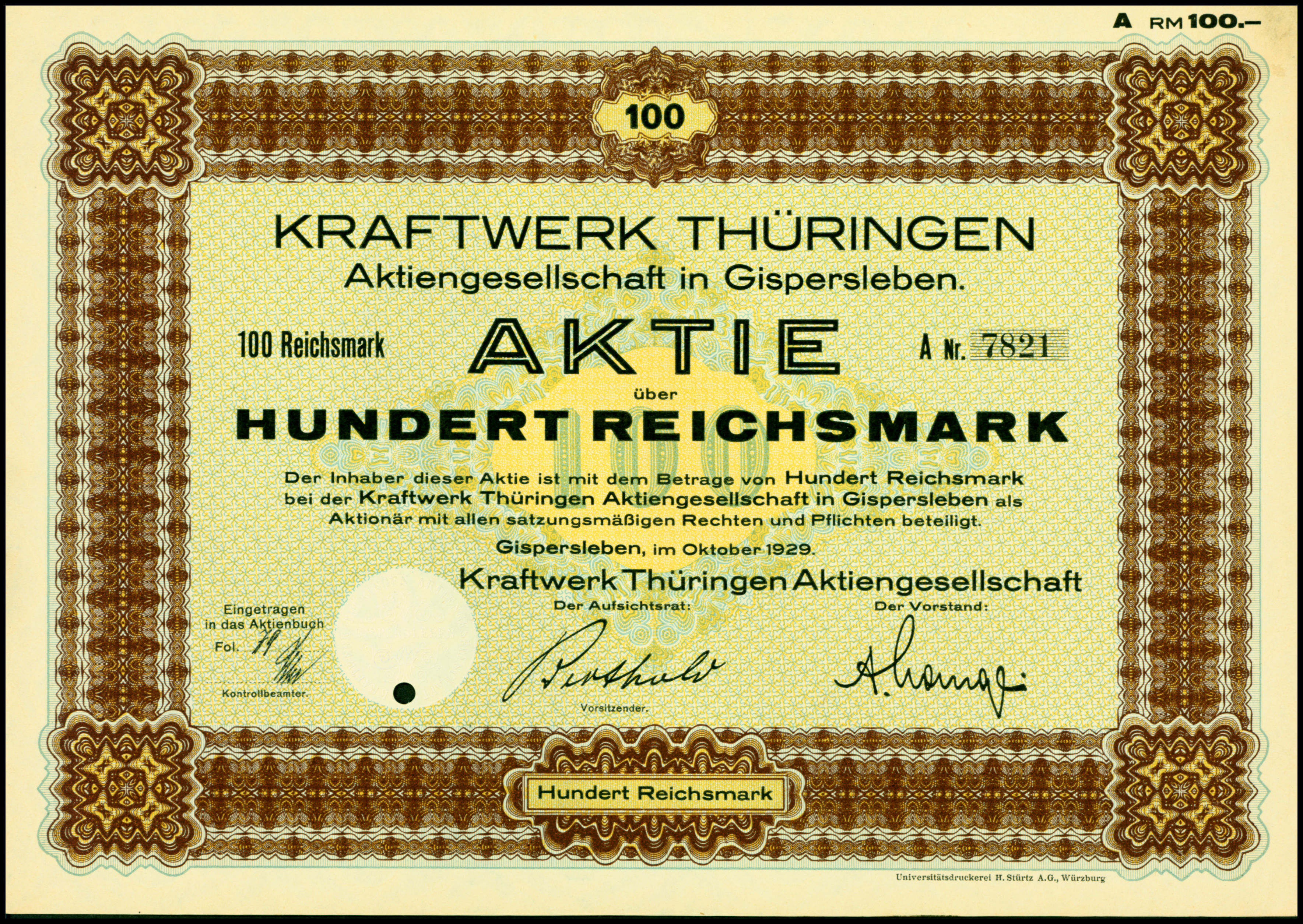 Share of the Kraftwerk Thüringen AG, issued October 1929